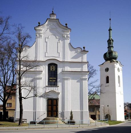 Pelhřimov, church of Saint Vitus